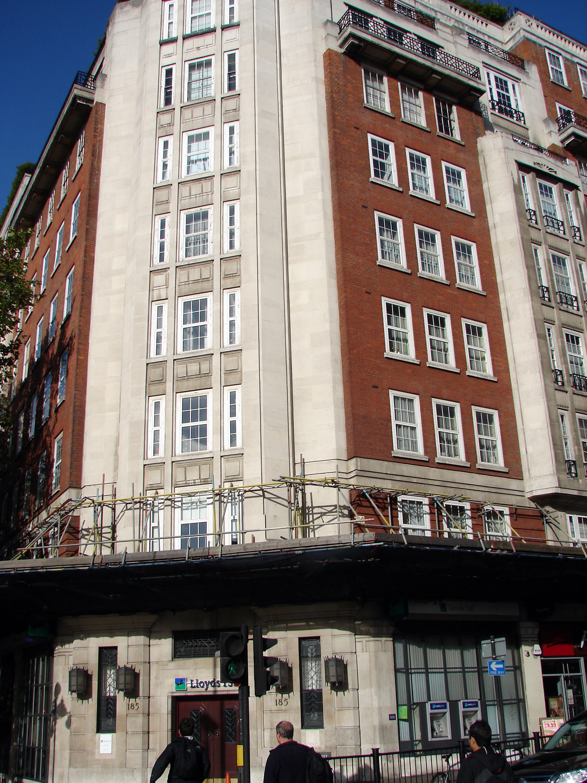 A branch of Lloyds Bank at the junction of Baker Street and Marylebone Road which has a plaque to Juan Pablo Viscardo Y Guzman attached to it. This was the bank where the Baker Street robbery took place